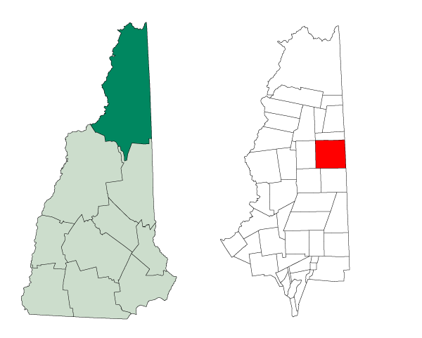 Map of a municipality in Coos County, New Hampshire